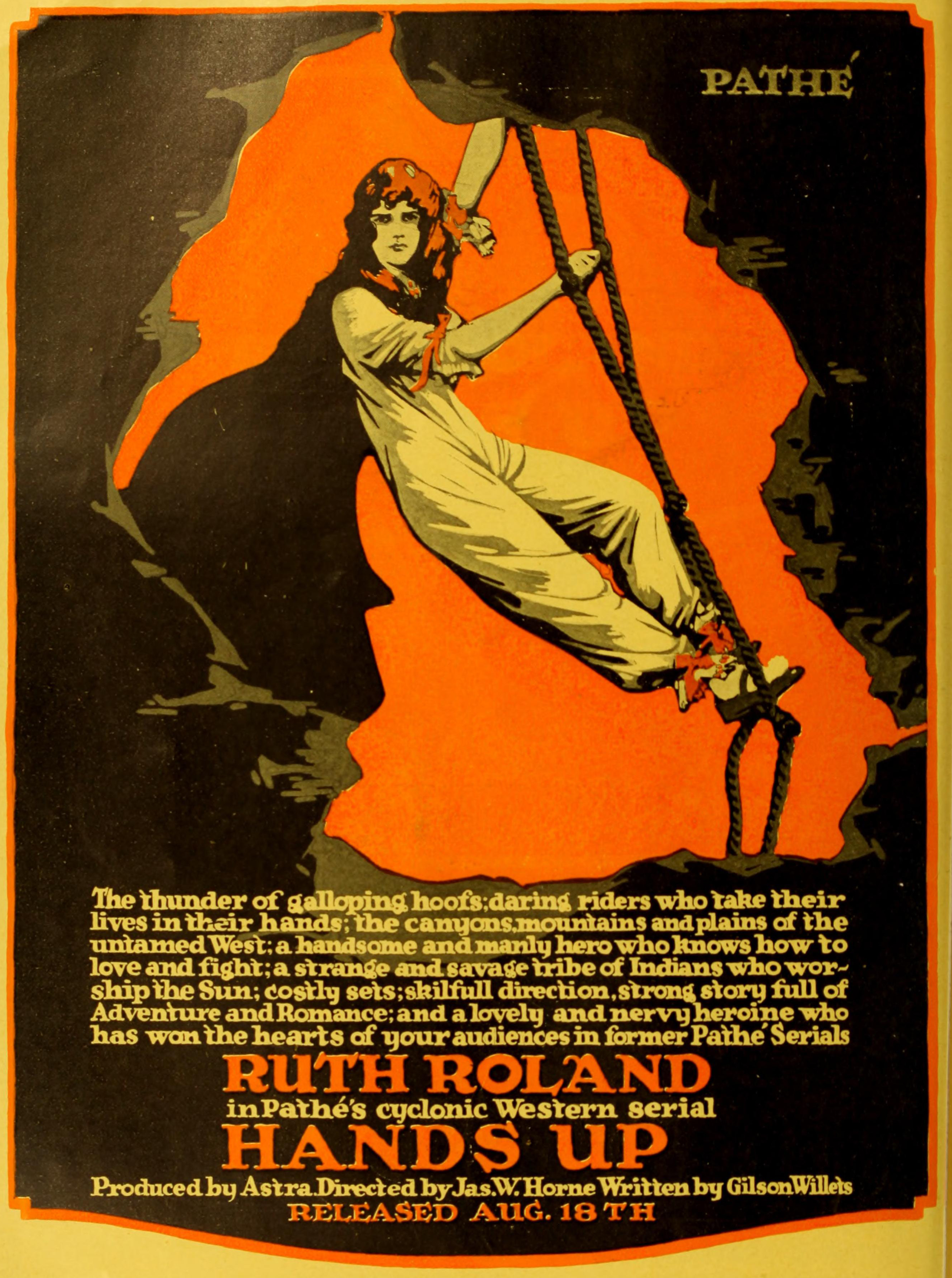 Advertisement in Moving Picture World, Jul 1918